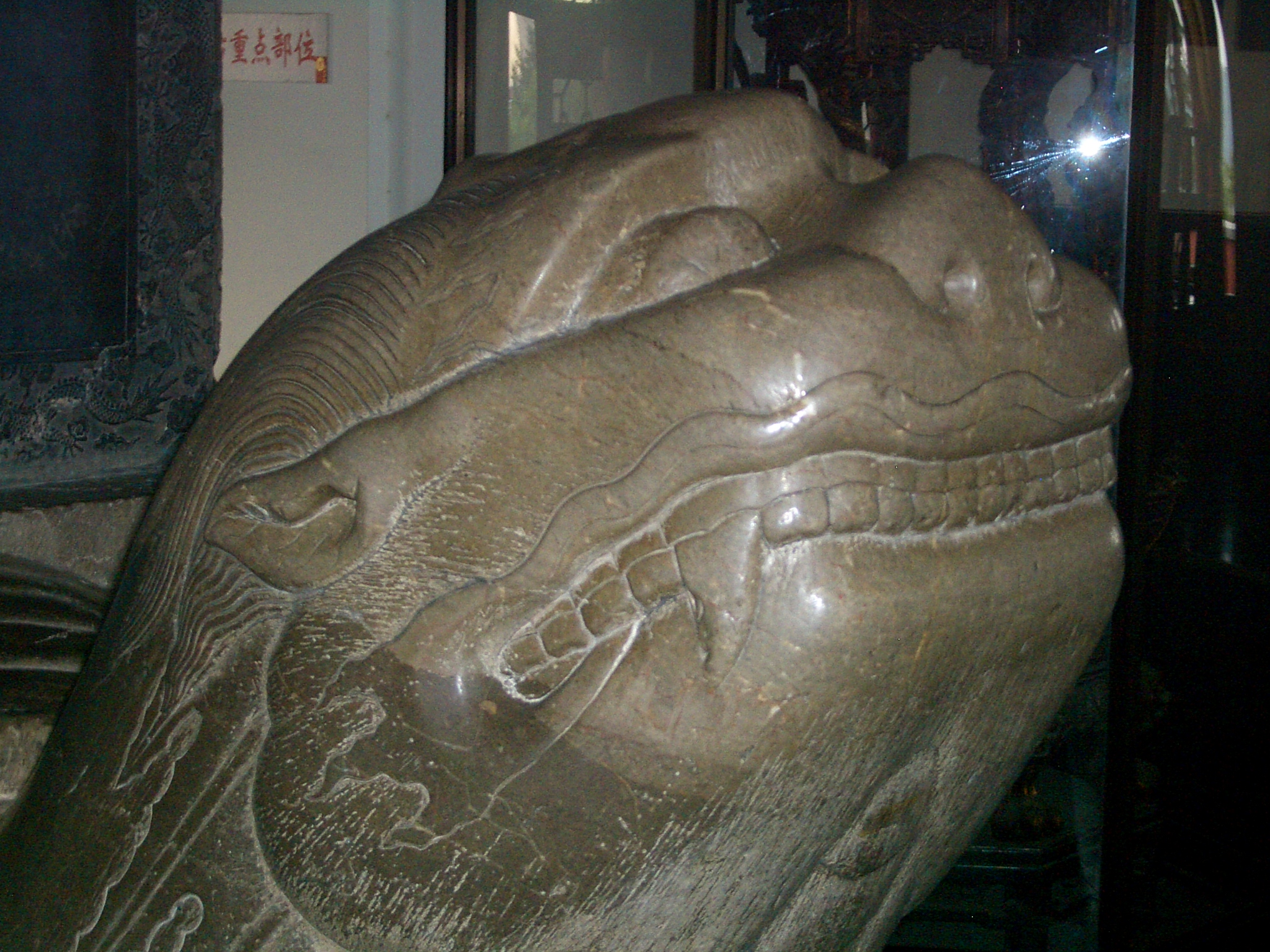 A tablet commemorating Kangxi Emperor's visit to Jiangning (today's Nanjing) in 1684. The tablet is held by a huge tortoise (bixi or guifu), and is housed on the second floor of the Drum Tower in central Nanjing